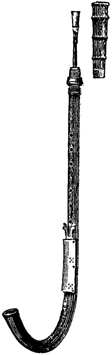 Drawing of a bass cromorne (Krummhorn, tournebout) with the cap that covers the reed drawn separately so the reed is visible.